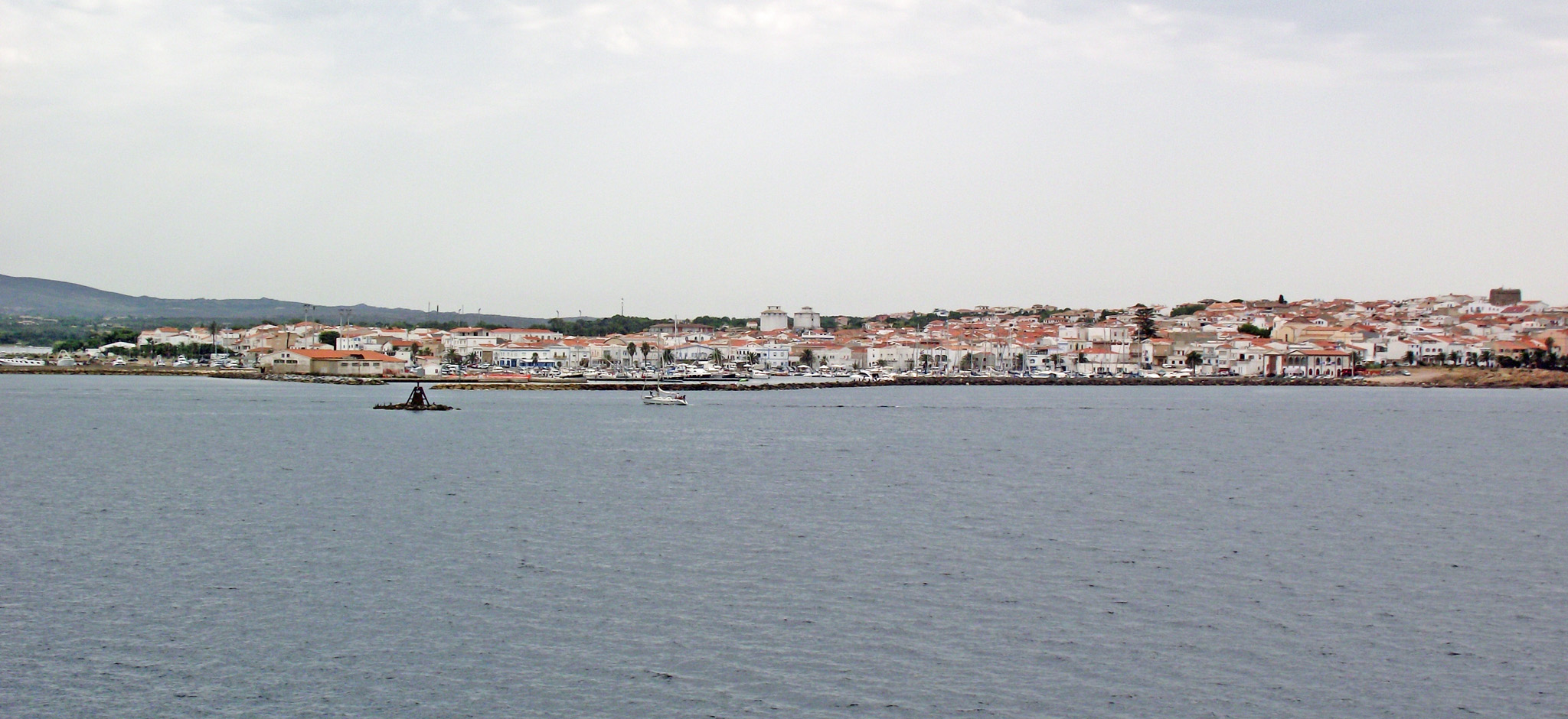 View from the sea of Calasetta, in Sardinia, Italy